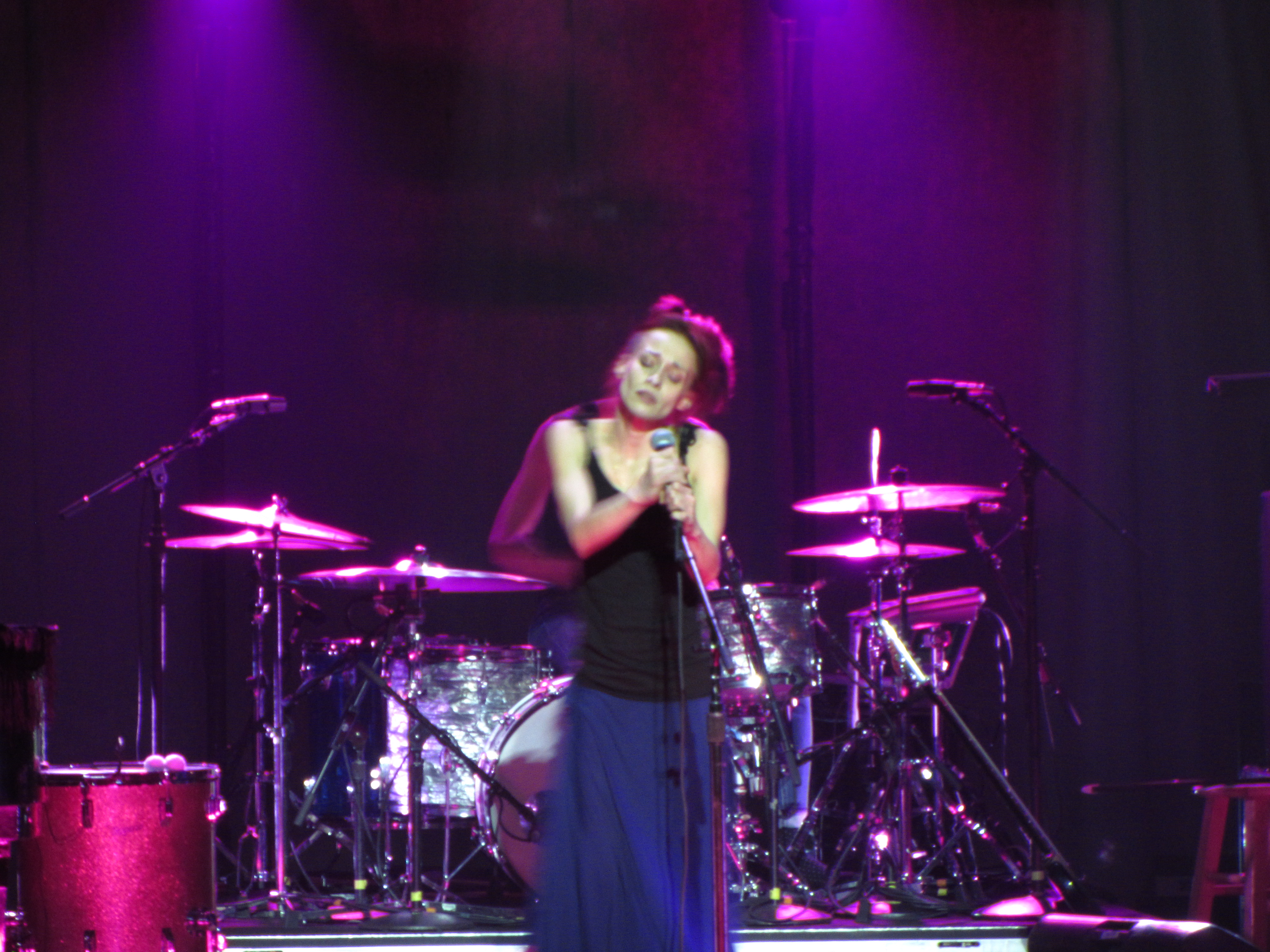 Fiona Apple live in concert, 2012.